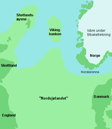 The Atlantic ocean area 8.000 B.C. where the "North Sea Country" existed.